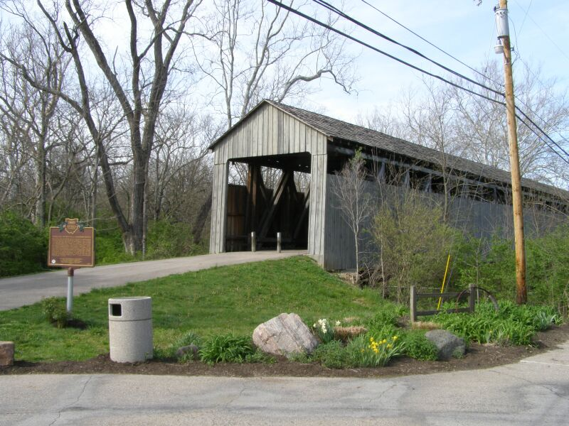 Pugh's Covered Bridge (Black Bridge), NE of Oxford